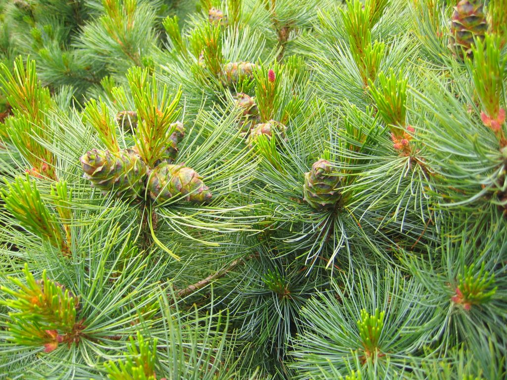 Pinus pumila, Kamchatka